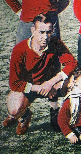 Zoilo Canaveri while playing for Independiente